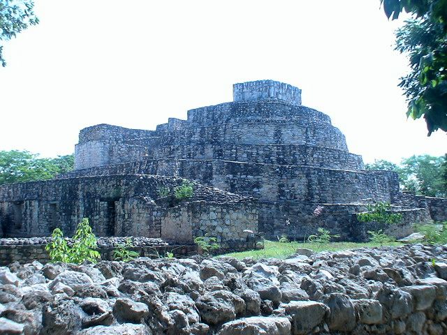 Ek Balam Maya site. `Observatory`.. on the top pools collected water and maya would look at the stars in the reflected water.